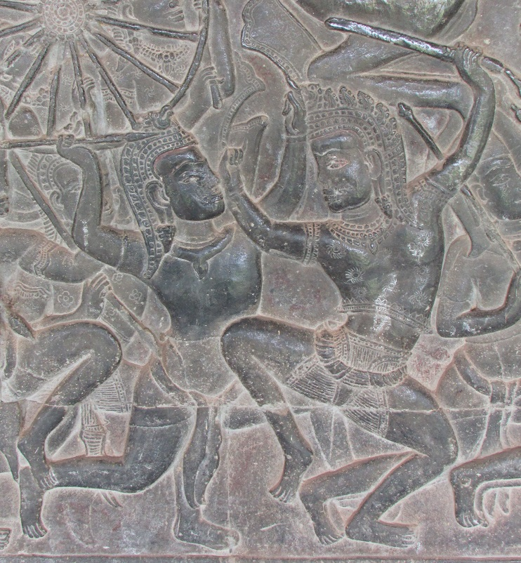 a depiction of a knee and uppercut strike found on a bas-relief at angkor wat.